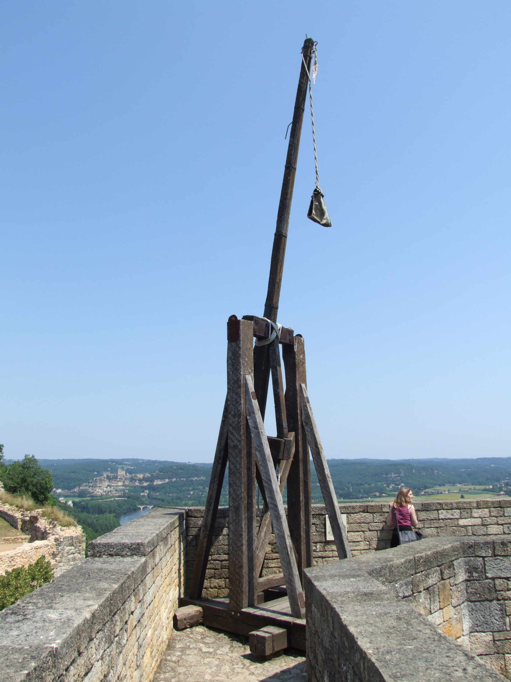 Castelnaud, Dordogne, FRANCE